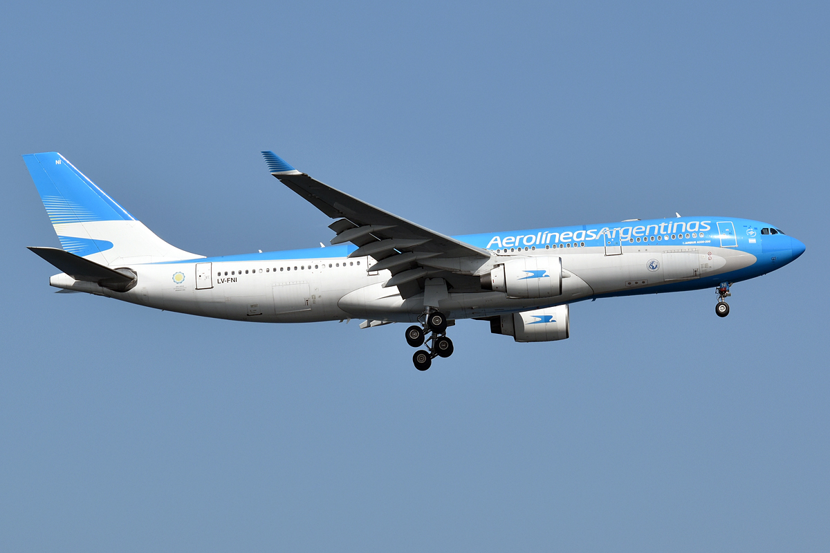 Aerolineas Argentinas, LV-FNI, Airbus A330-223